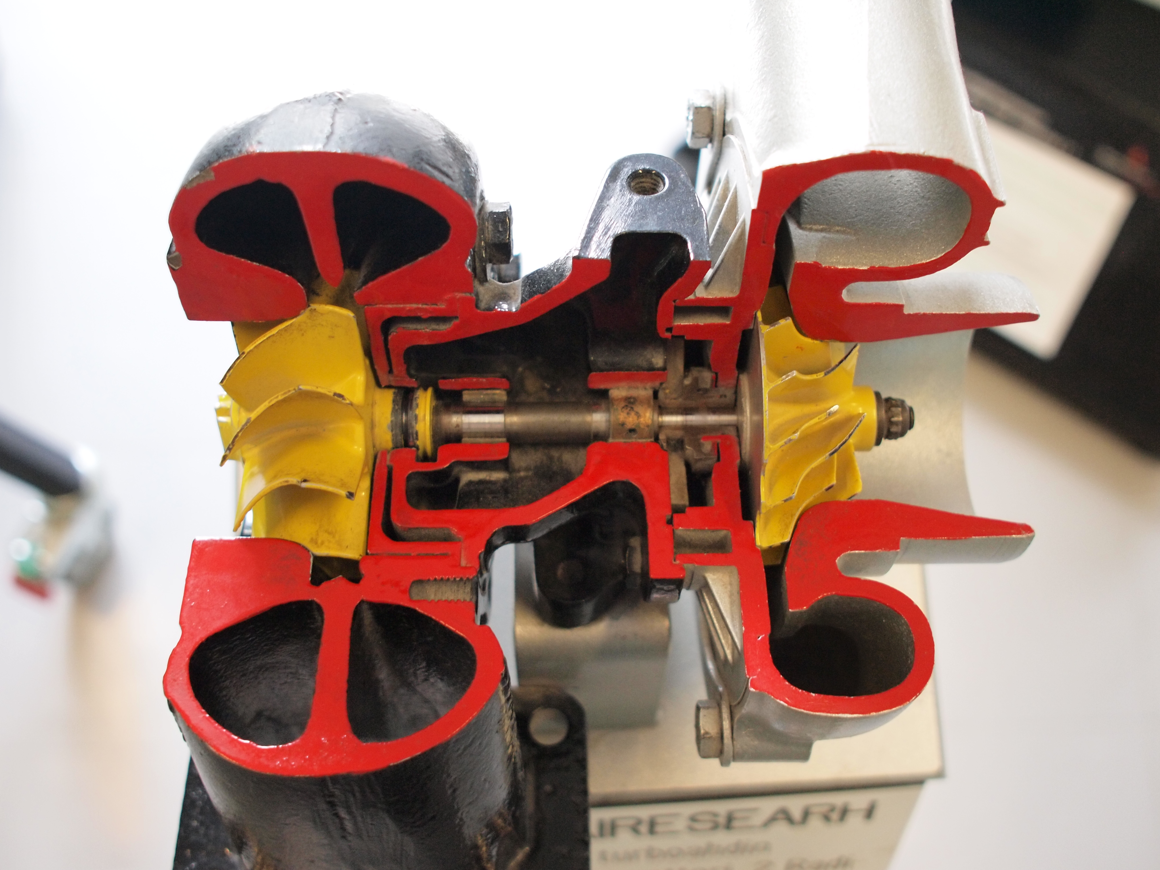 Sectioned Garrett AiResearch turbocharger originally used in a Valmet diesel engine. The turbocharger was donated to Lappeenranta University of Technology by Valmet and then sectioned for educational purposes by P. Eskelinen.